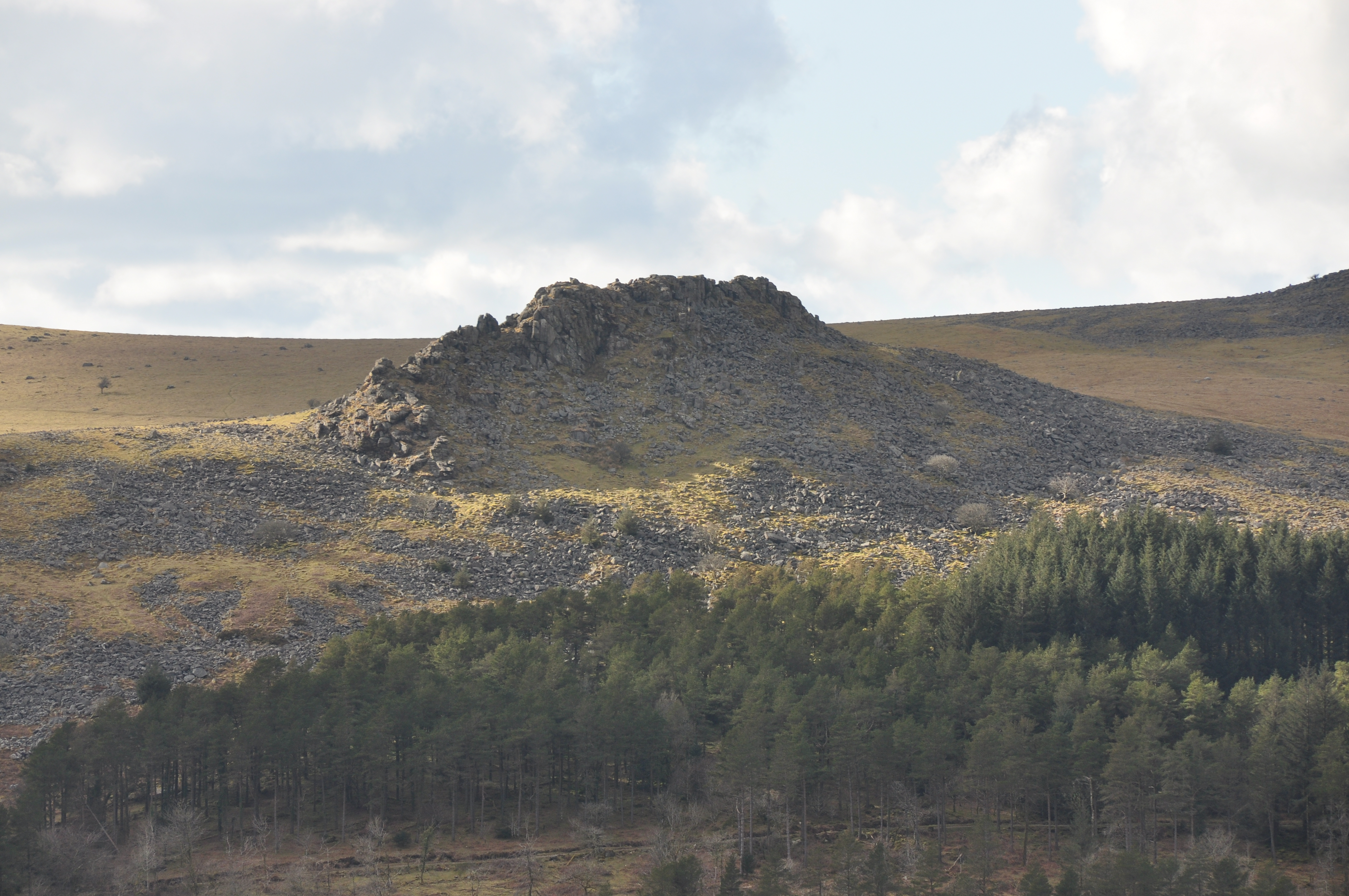 Leather Tor from Down TorPortuguês do Brasil: Leather Tor, visto de cima do Down Tor